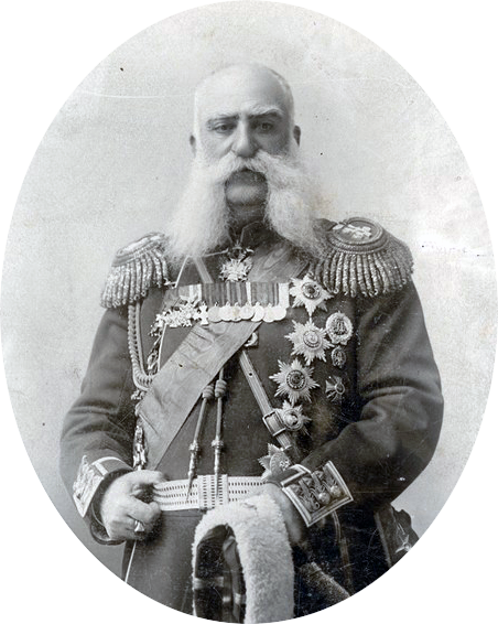 Georgian nobleman and General of the Imperial Russian Army Amilakhori, Ivan Givich